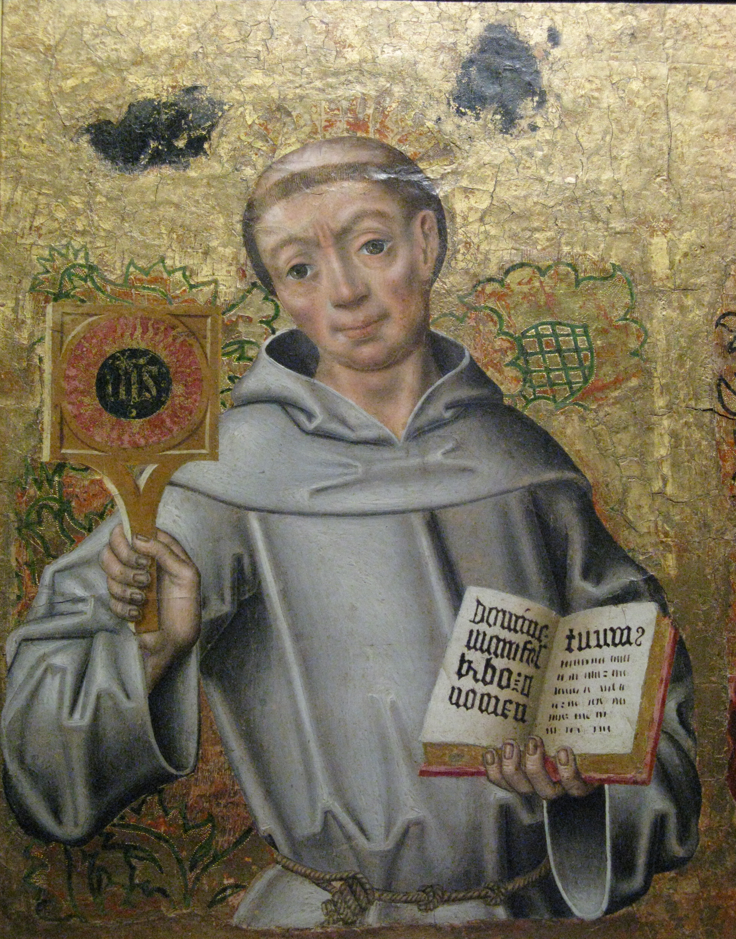 Bernardino of Sienna. Photo of a painting of 16th century in Langeais Castle, France. Unknown painter.